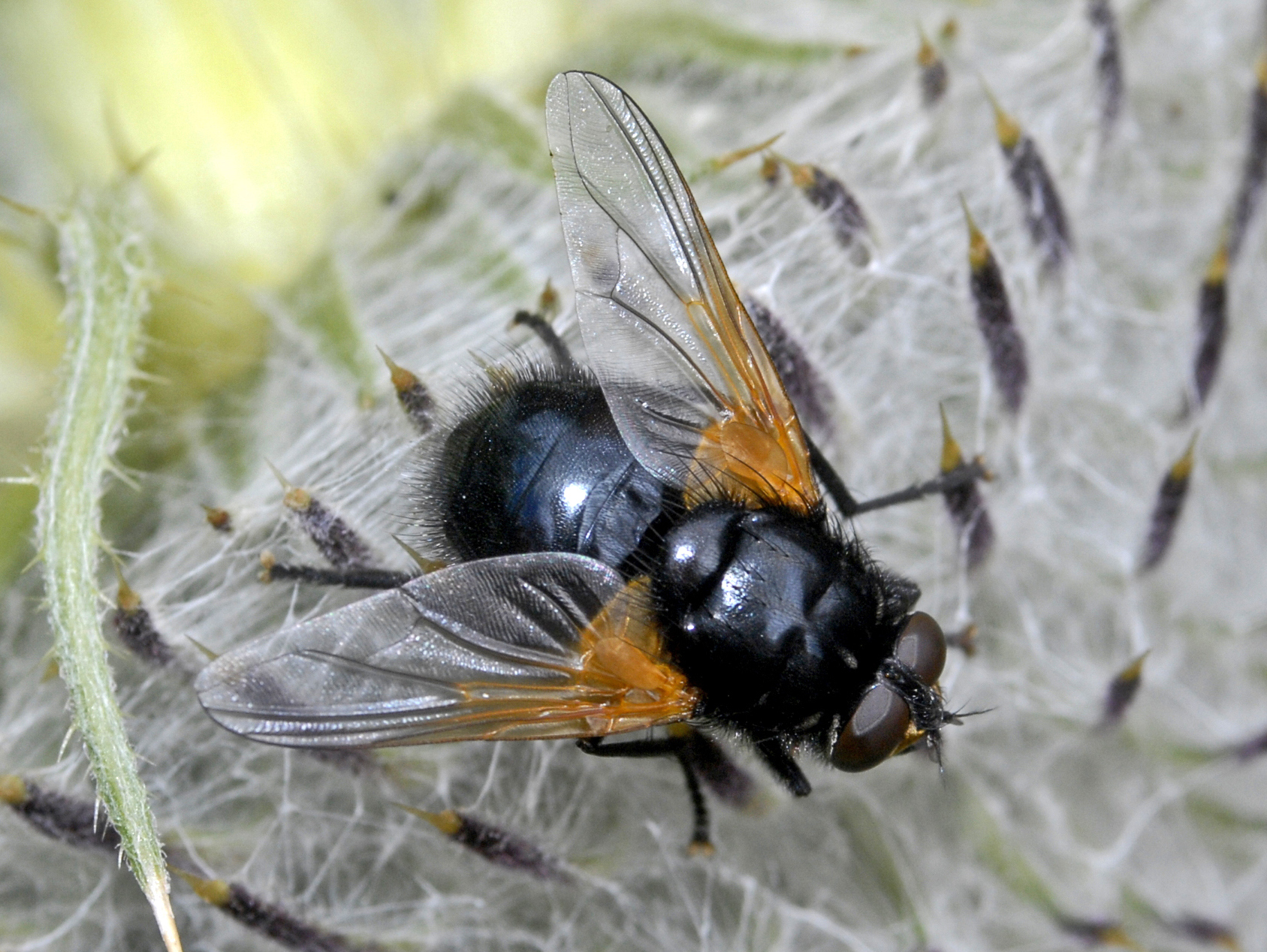 Mesembrina meridiana. Val di Rhemes, Aosta, Italy